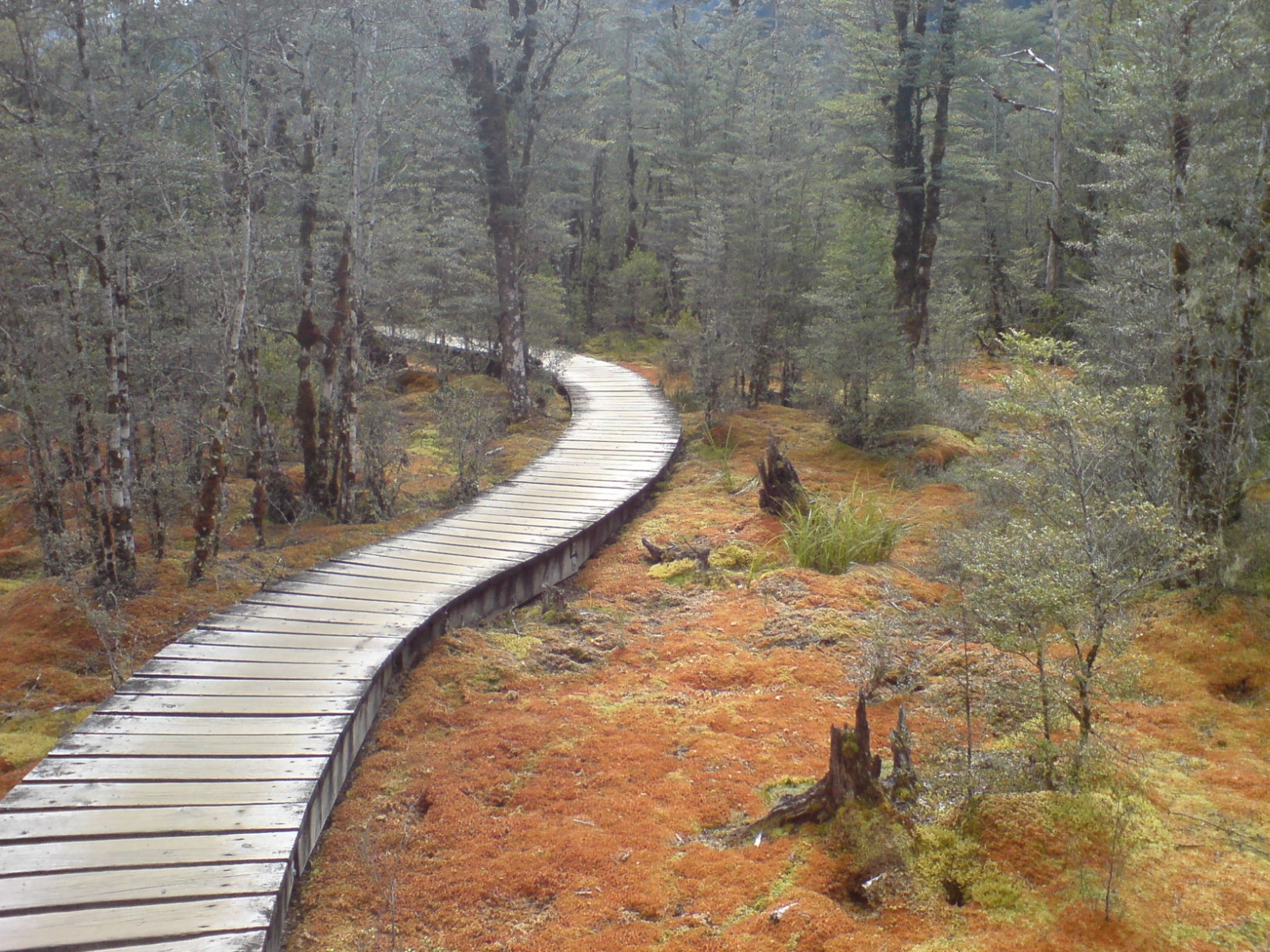 A pretty bog on the Milford Track in Fiordland National Park, New Zealand. This boardwalk is part of a little educational side-trail shortly before arriving at the huts for the end of the first day of the (Freedom Walker's) track. Coordinates are approximate only (may be off as much as 50m). This photo was used around 2009 in a New Zealand Herald article about the Milford Track. Possibly only used in the online version though.